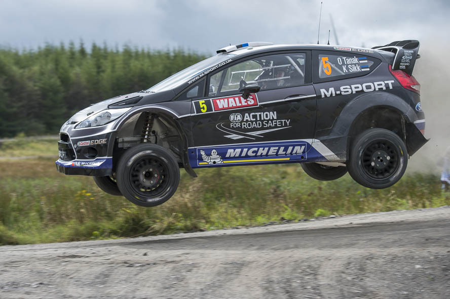 Wales Rally Great Britain 2012 Ford Fiesta RS WRC,Free Practice,Freies Training,Kuldar Sikk,M-Sport Ford WRT,M-Sport Ford World Rally Team,Motorsport,Ott Tänak,Rally,Rallye,Shakedown,WRC,Wales Rally GB,Walters Arena